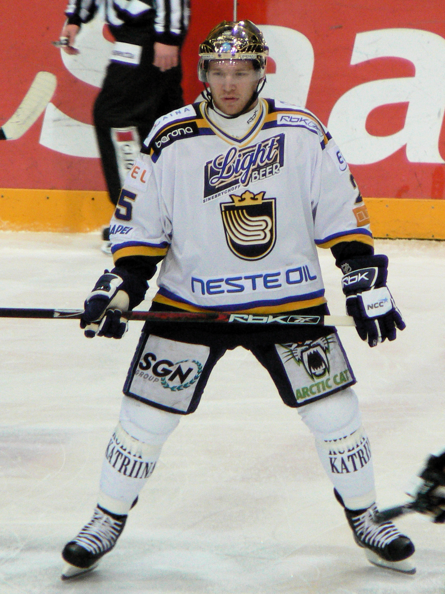 Canadian ice hockey winger Ryan Keller of Blues Espoo, wearing the golden helmet as the top scorer of his team, in February 2008.